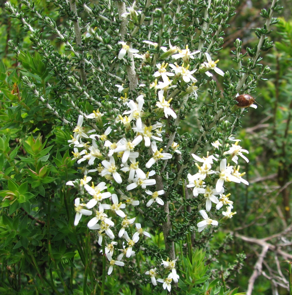 Olearia algida Mount Baw Baw, Victoria, Australia